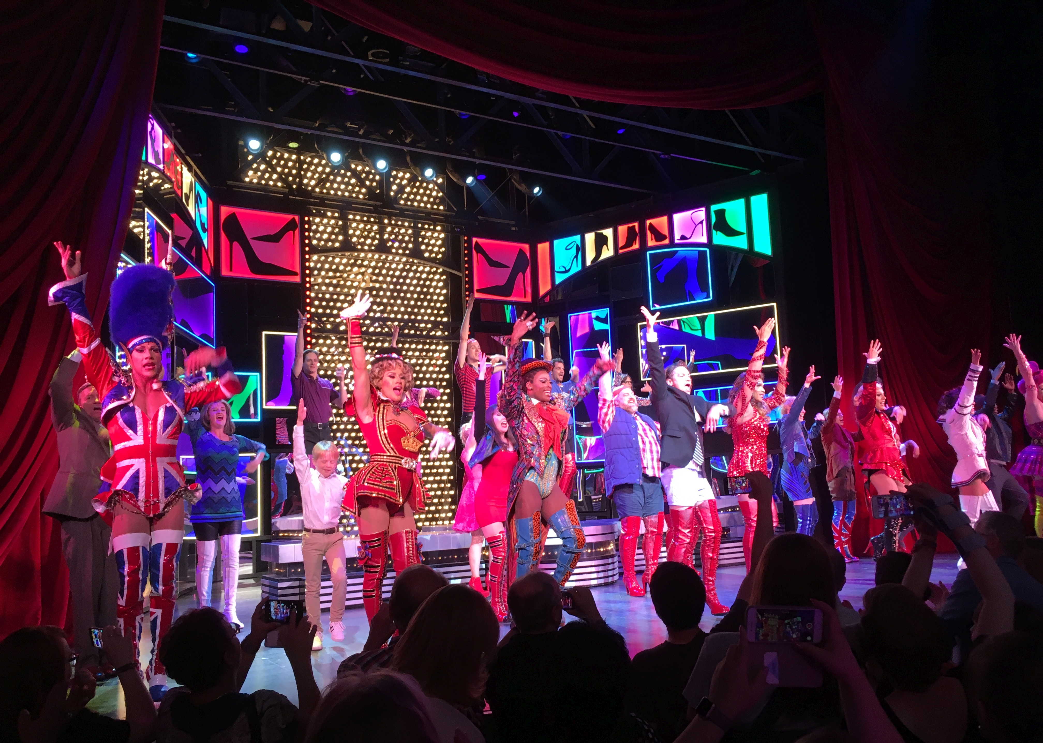 Musical "Kinky Boots" in Operettenhaus, Hamburg, Germany (May 2018) -- In the encore of the German show, taking pictures and publishing them in the net is officially allowed.